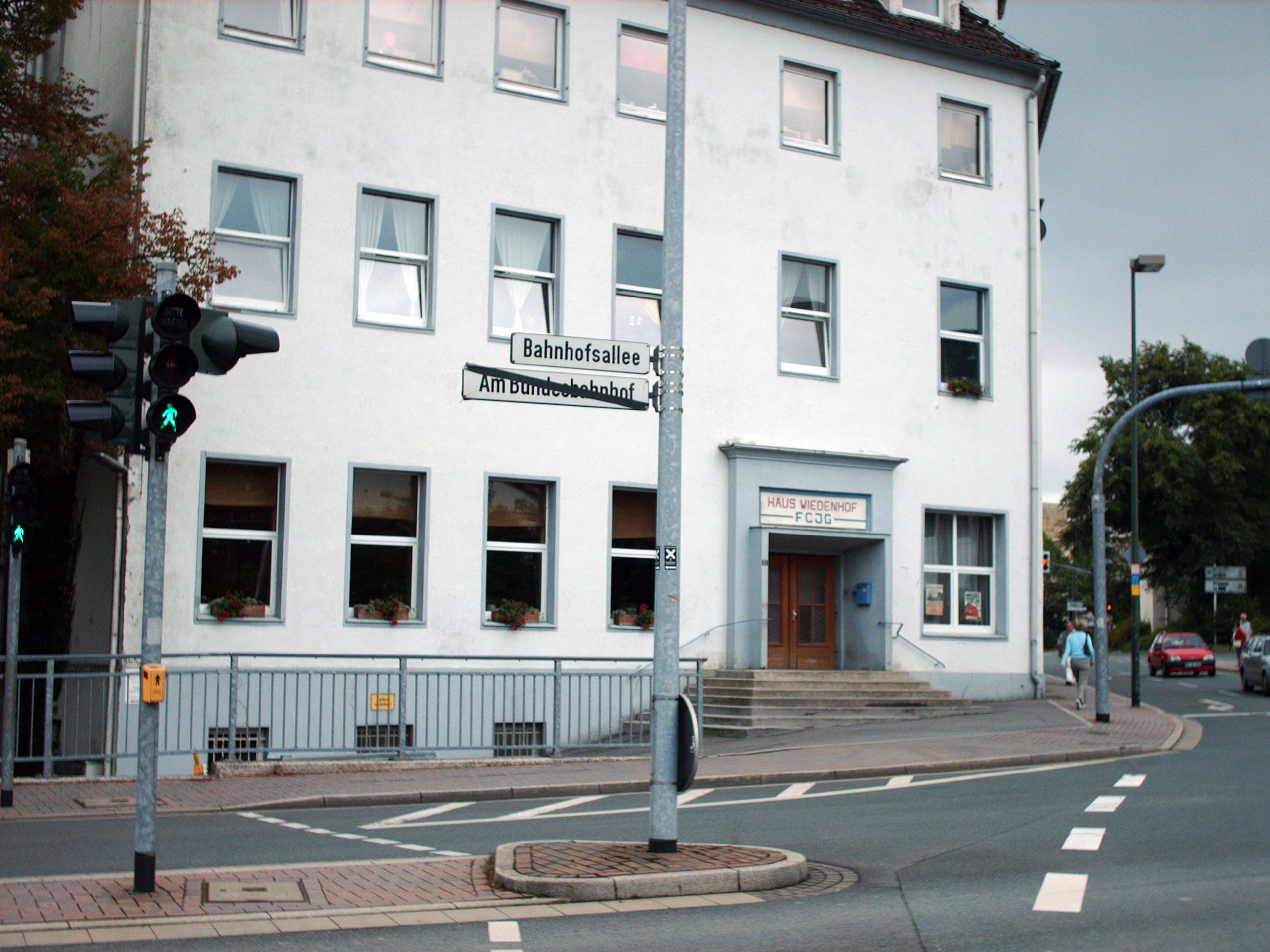 "Haus Wiedenhof", formerly housing the CVJM (YMCA) at the corner Bahnhofstraße/Bahnhofsallee in , Lüdenscheid, Germany. The street Am Bundesbahnhof has been renamed to Bahnhofsallee following the national railways from an administration to a public company. check usage